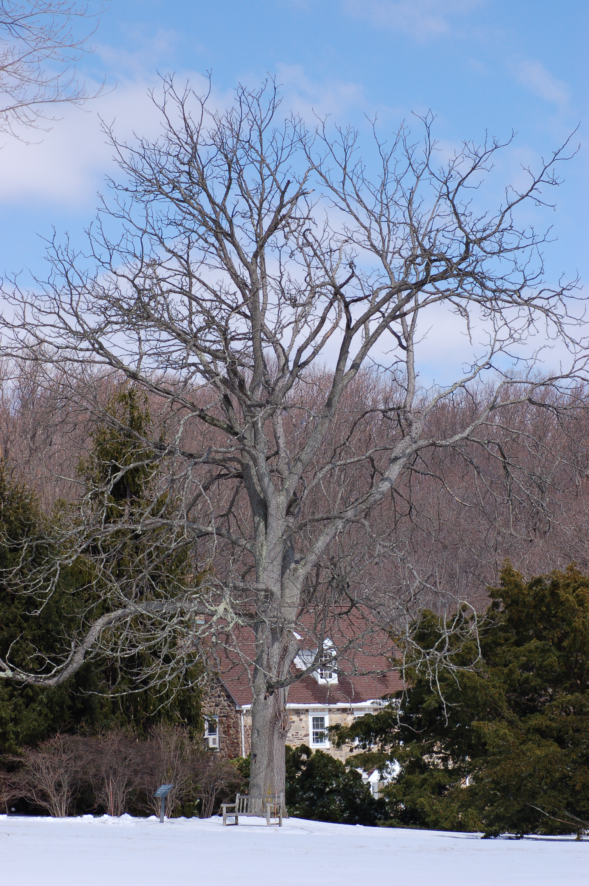 Photograph of the Kentucky Coffee-treeen (Gymnocladus dioicus en ). Photo taken at the Tyler Arboretum where it was identified.